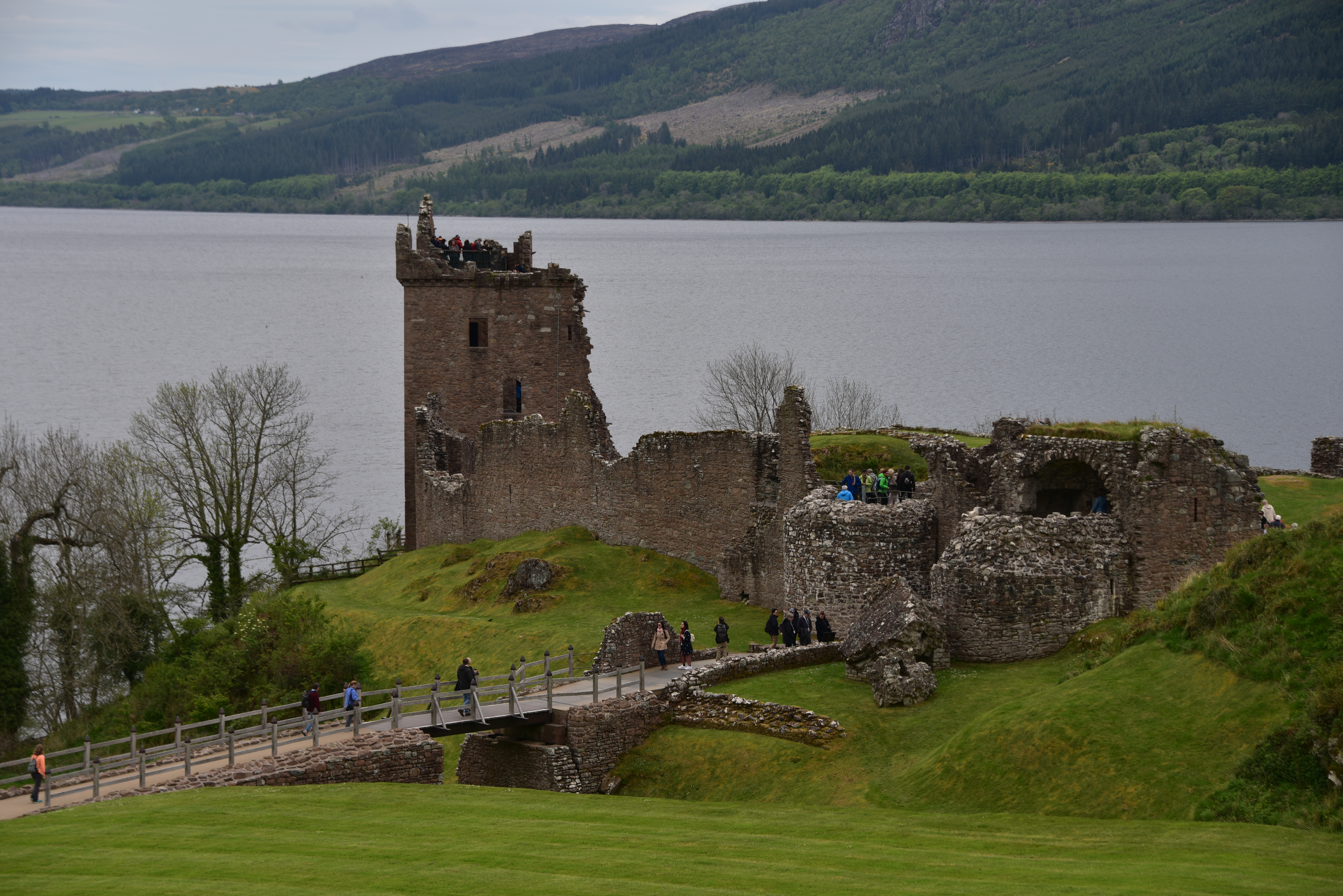 A medieval castle overlooking Loch Ness.